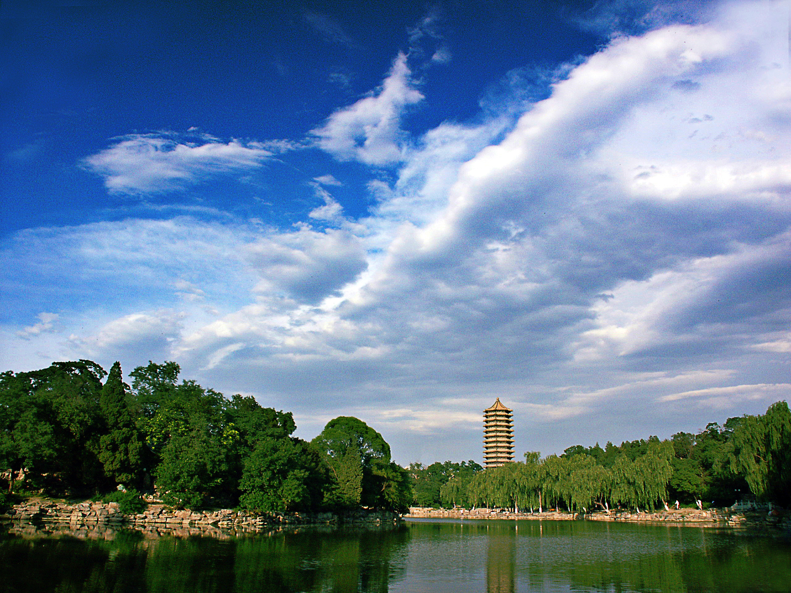 Campus scenery, Peking University